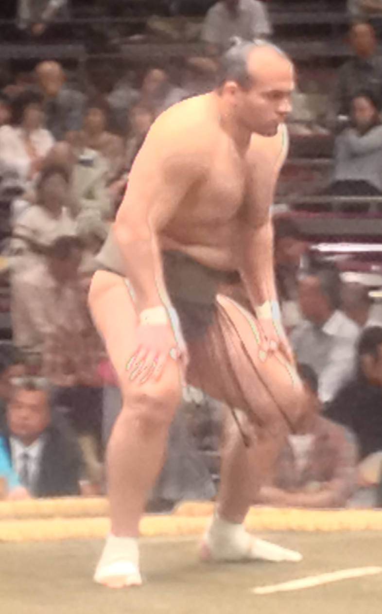 taken at May 2013 tournament on 11th day